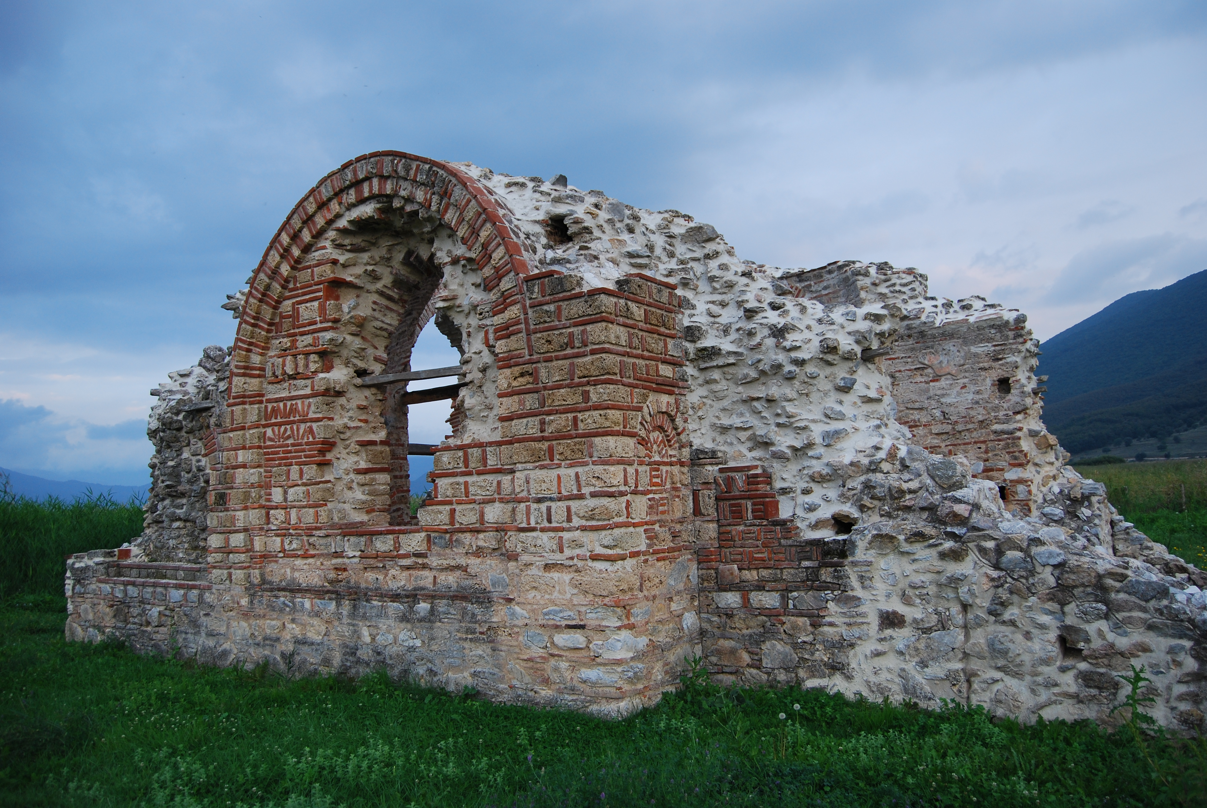 Ruins in Pili/Vineni, Greece